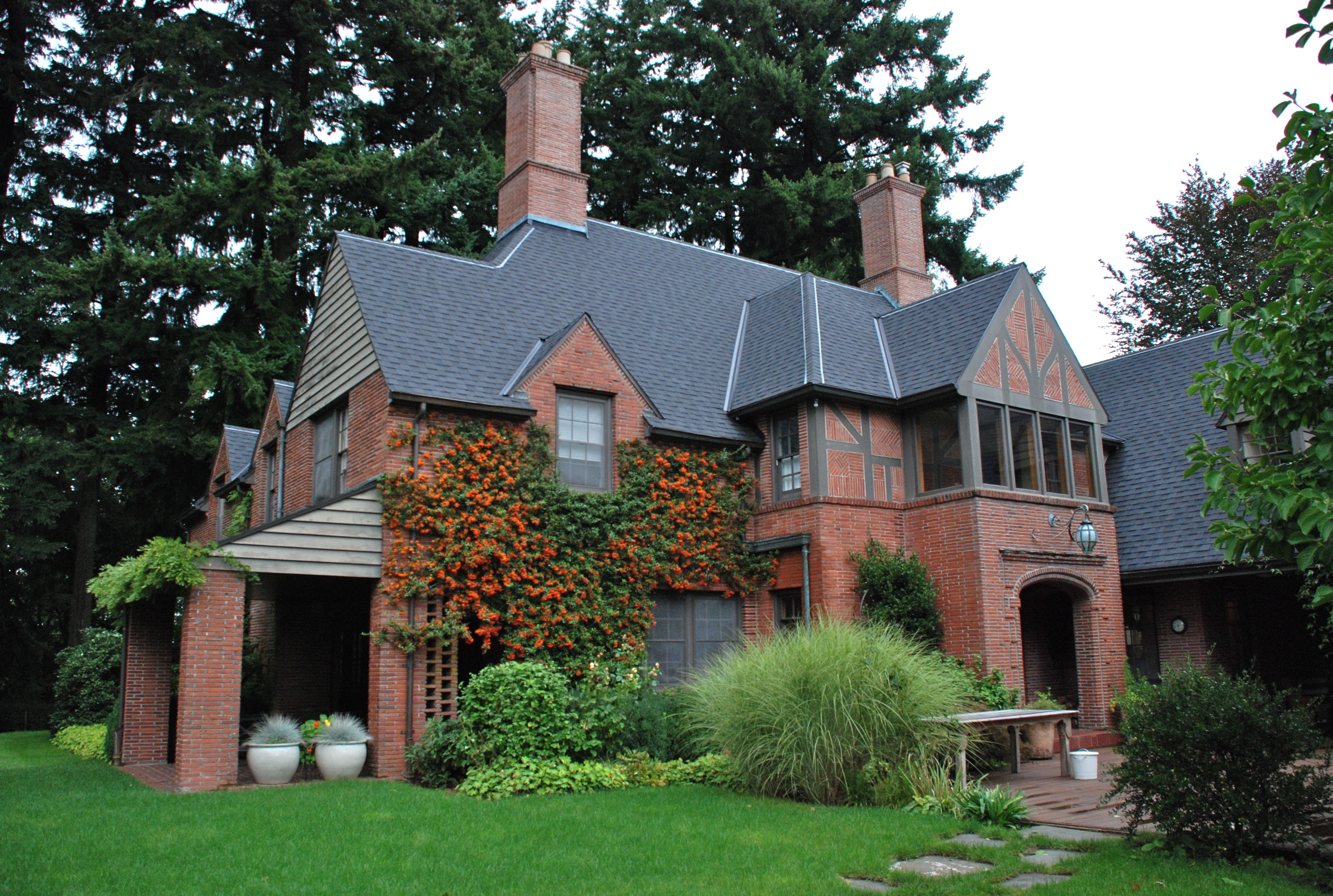 The Roy and Leola Gangware House, located in the Portland (Oregon) metropolitan area and just west of the city of Portland proper, is listed on the U.S. National Register of Historic Places.